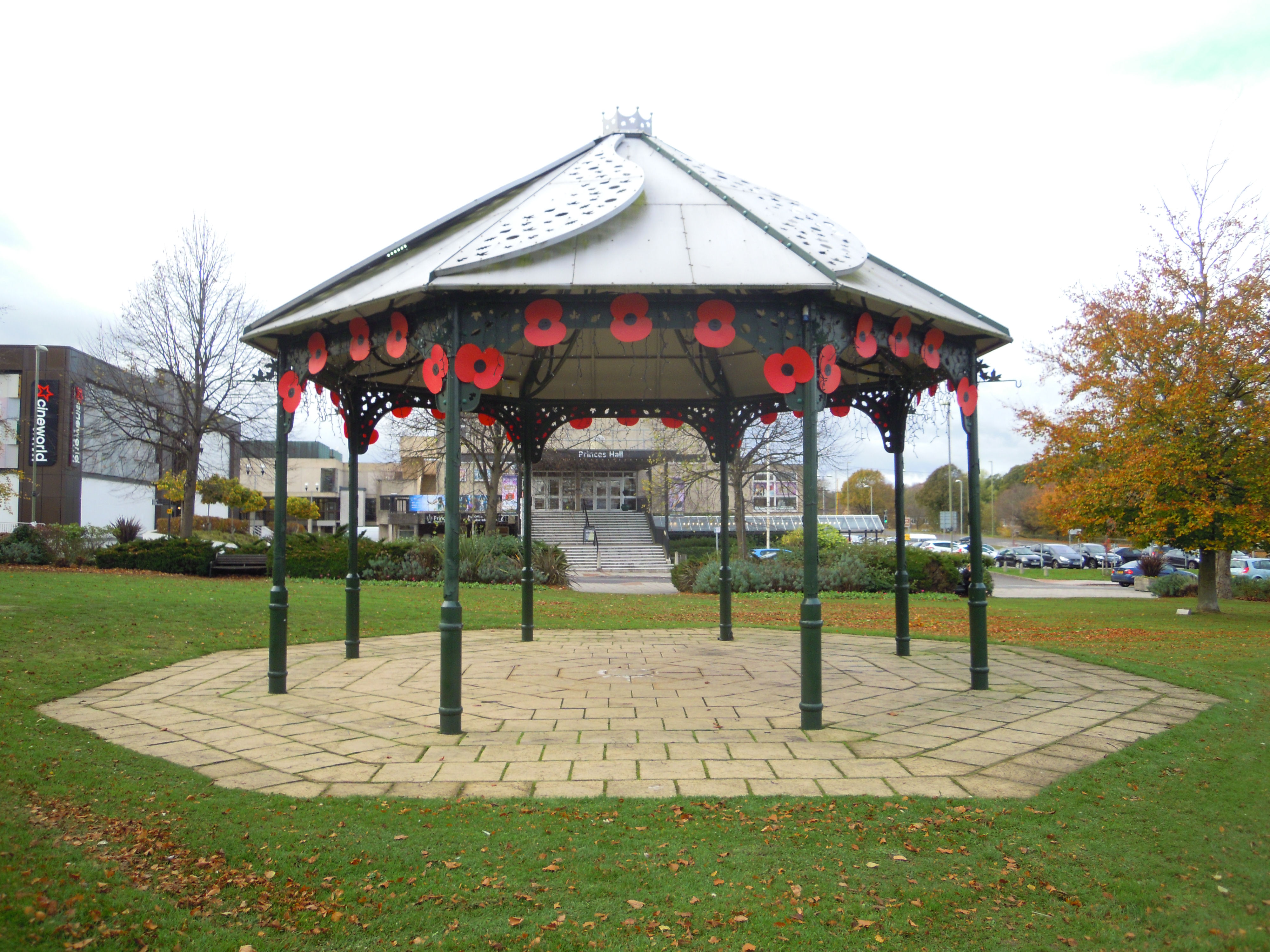 The bandstand at Princes Gardens in Aldershot in Hampshire